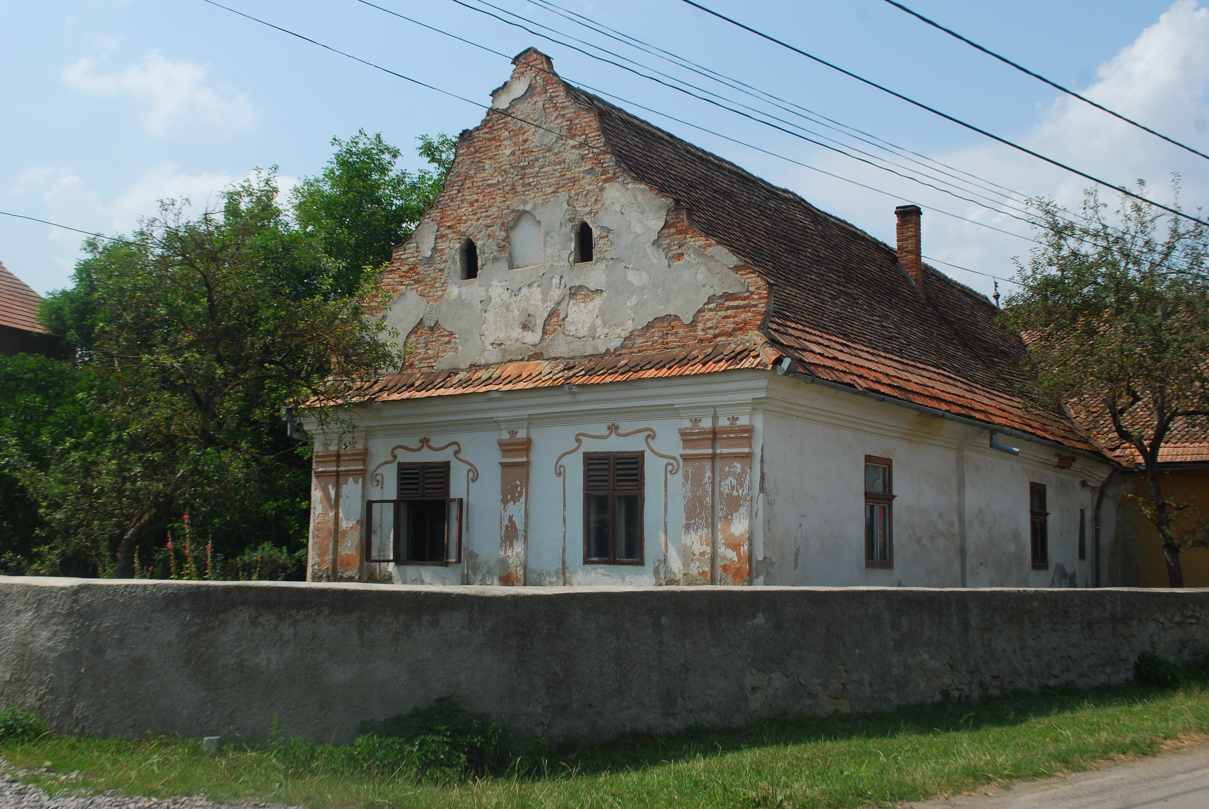 Bakó house in Ilieni, Covasna County, Romania